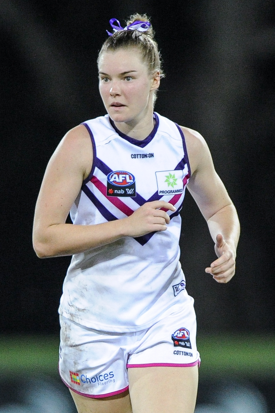 Hayley Miller in the AFL Women's preseason match between the Adelaide Football Club and Fremantle Football Club on 20 January 2018 at TIO Stadium.